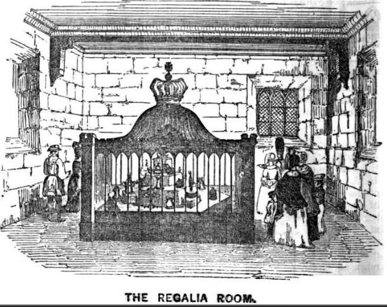 Crwon Jewels / The Jewels House at the Tower of London 1851